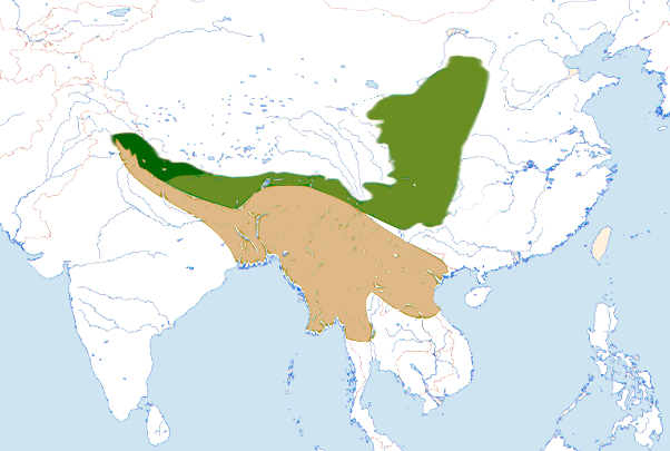 Grey-backed Shrike (Lanius tephronotus) - distribution map